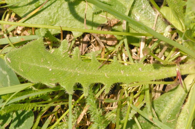 Leontodon hispidus from Commanster, Belgian High Ardennes .